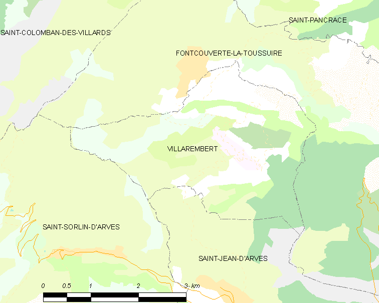 Map of French municipality Villarembert